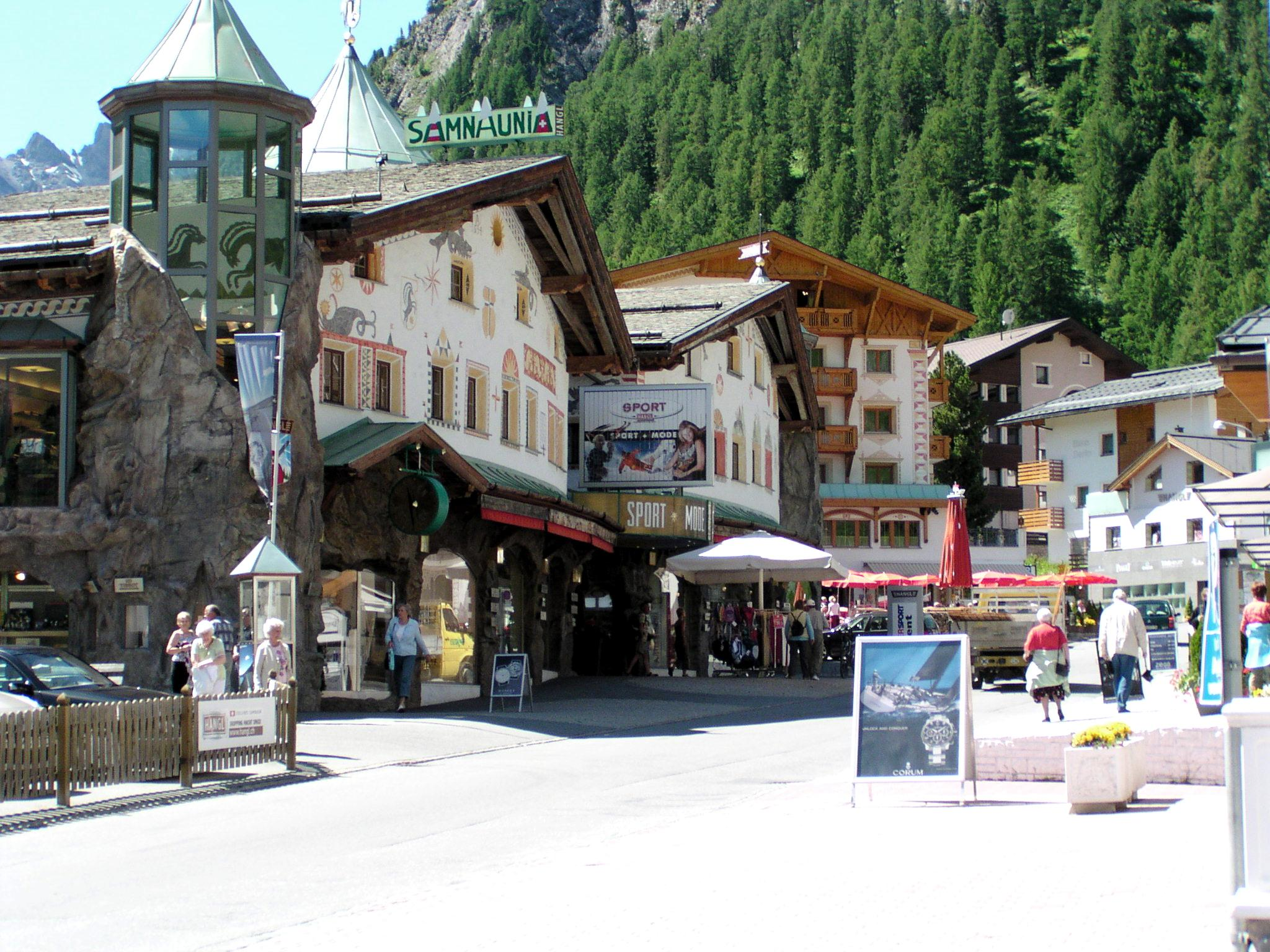 Samnaun, Graubünden